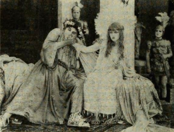 Still from the American film Nero (1922) with Jacques Grétillat as the emperor and Violet Mersereau, page 60 of the August 1922 Photoplay.